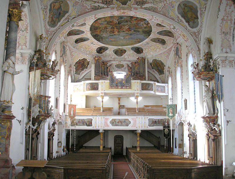 Bertoldshofen, interior view of St Michael Parish Church from east.